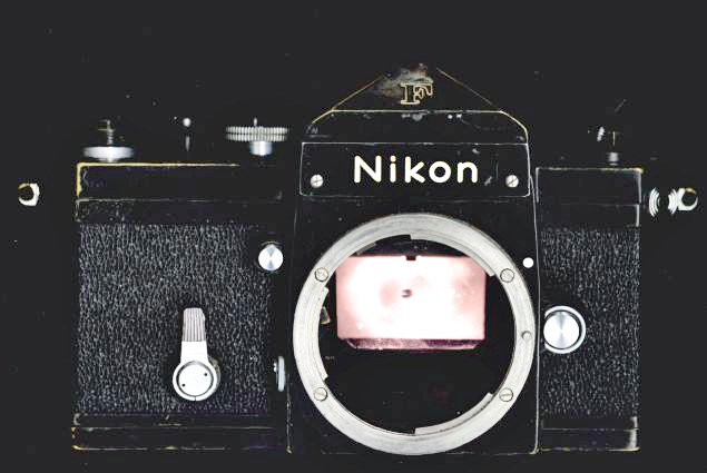 Nikon F No. 6937665. Still in use Technique: Exposed upon a flatbed scanner, using as an opposite light a "Maglite" putting it upon the ocular of the Nikon. The room was darkened.